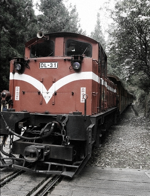 Alishan Forest Railway Diesel locomotive DL31